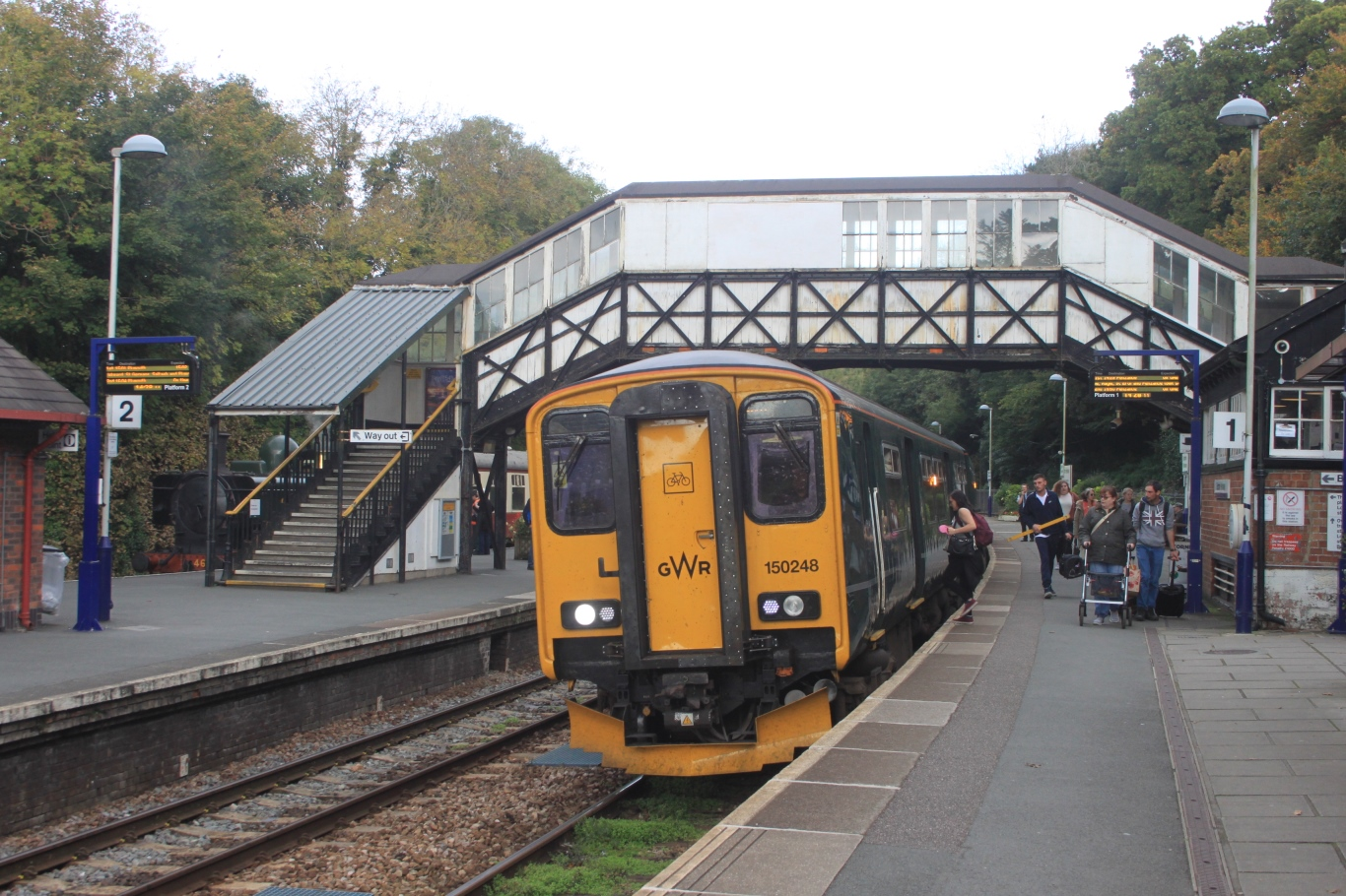 Refurbished Great Western Railway diesel multiple unit 150248 calls at Bodmin Parkway as it works a local service down the main line through Cornwall.